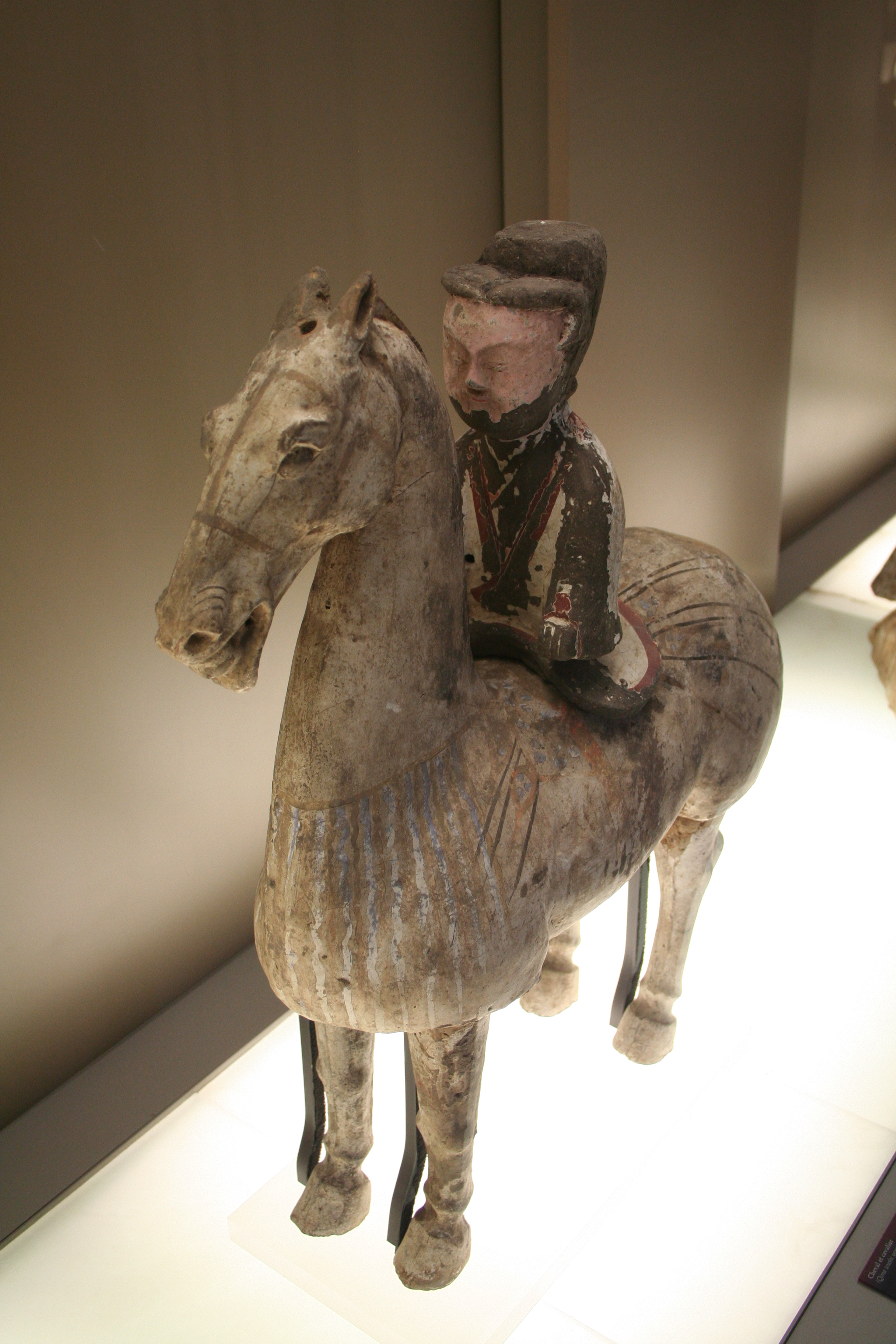 Horse and Horseman (Qima Wushi Yong). Terra Cotta. Western Han Period (206 BC – 9 AD). Cernuschi Museum, Paris, France.